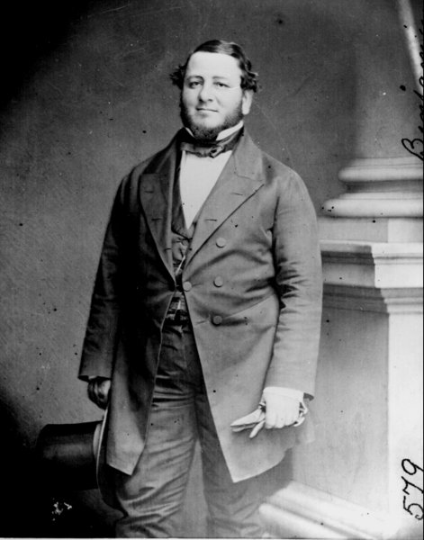 Judah P. Benjamin, Democratic Senator from Louisiana, 1852-61. Confederate States Attorney General, Secretary of War and Secretary of State.